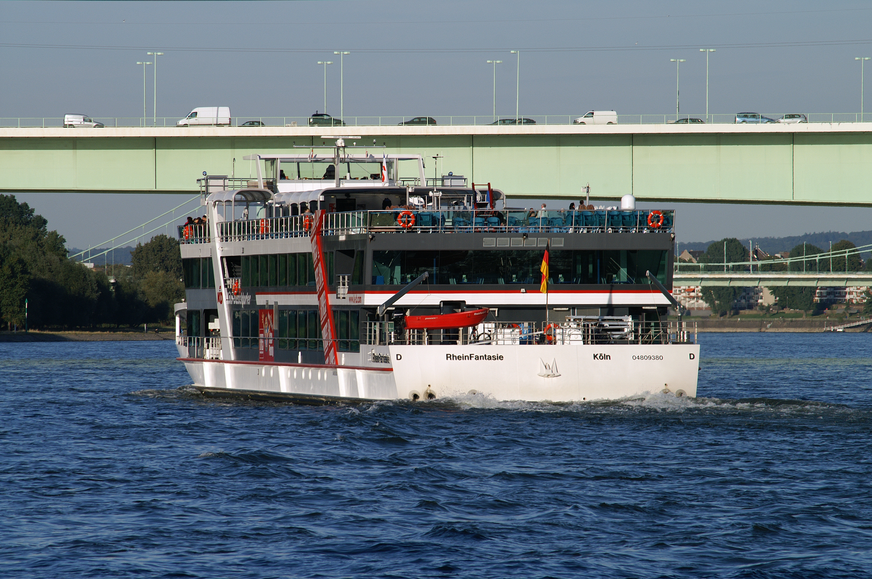 Day trip ship RheinFantasie in Cologne.